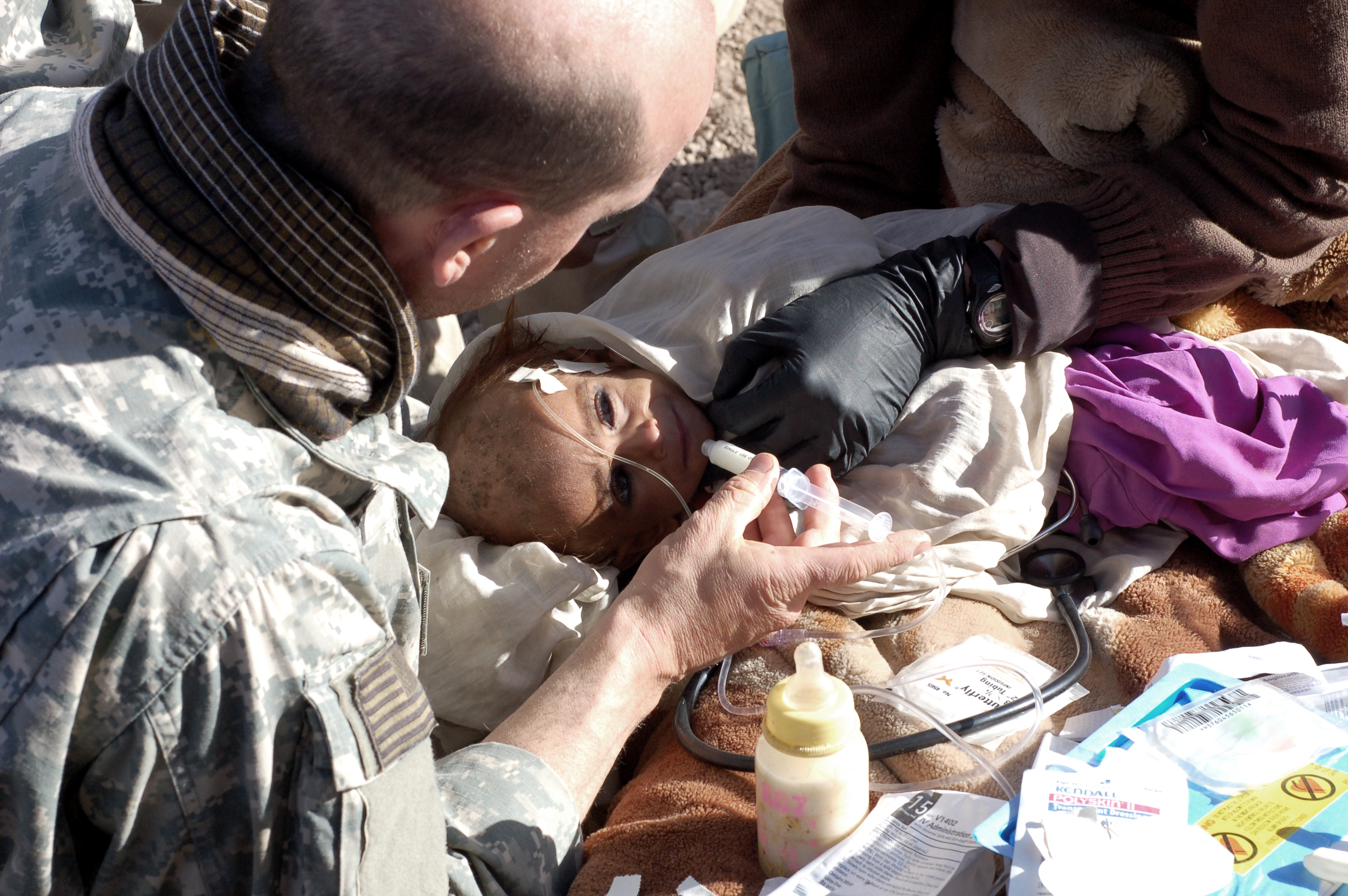 A malnourished Afghan child, weighing 14 pounds (6.4 kg) at 18 months of age, is treated by a US Army medical team member in Paktya, Afghanistan.